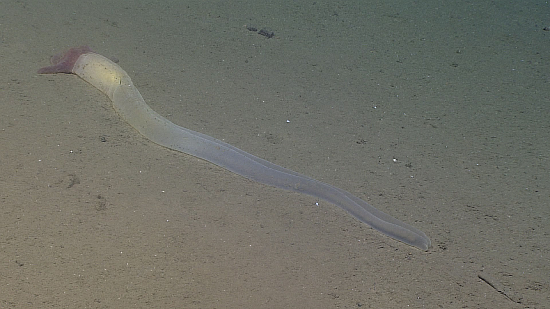 Enteropneust "acorn" worm at 5539 meters depth. Image ID: expn7526, Voyage To Inner Space - Exploring the Seas With NOAA Collection Photo Date: 2016 0701 010232Z Credit: NOAA Okeanos Explorer Program, 2016 Deepwater Exploration of the Marianas, Leg 3